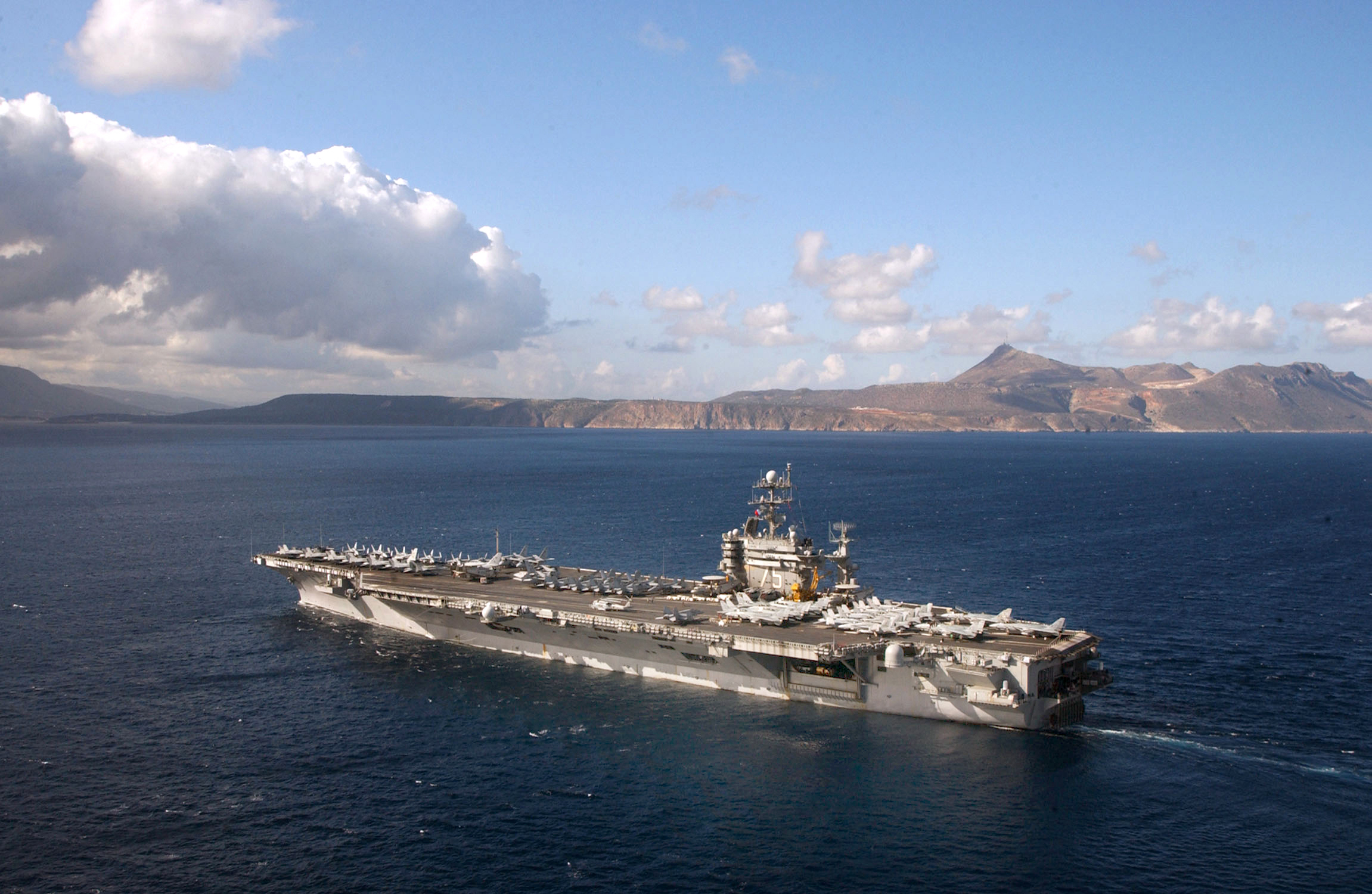 Souda Bay, Crete, Greece (Dec. 30, 2002) -- USS Harry S. Truman (CVN 75) and Carrier Air Wing Three (CVW-3) are on a regularly scheduled deployment in support of Operation Enduring Freedom. U.S. Navy photo by Photographer's Mate 2nd Class John L. Beeman. (RELEASED)